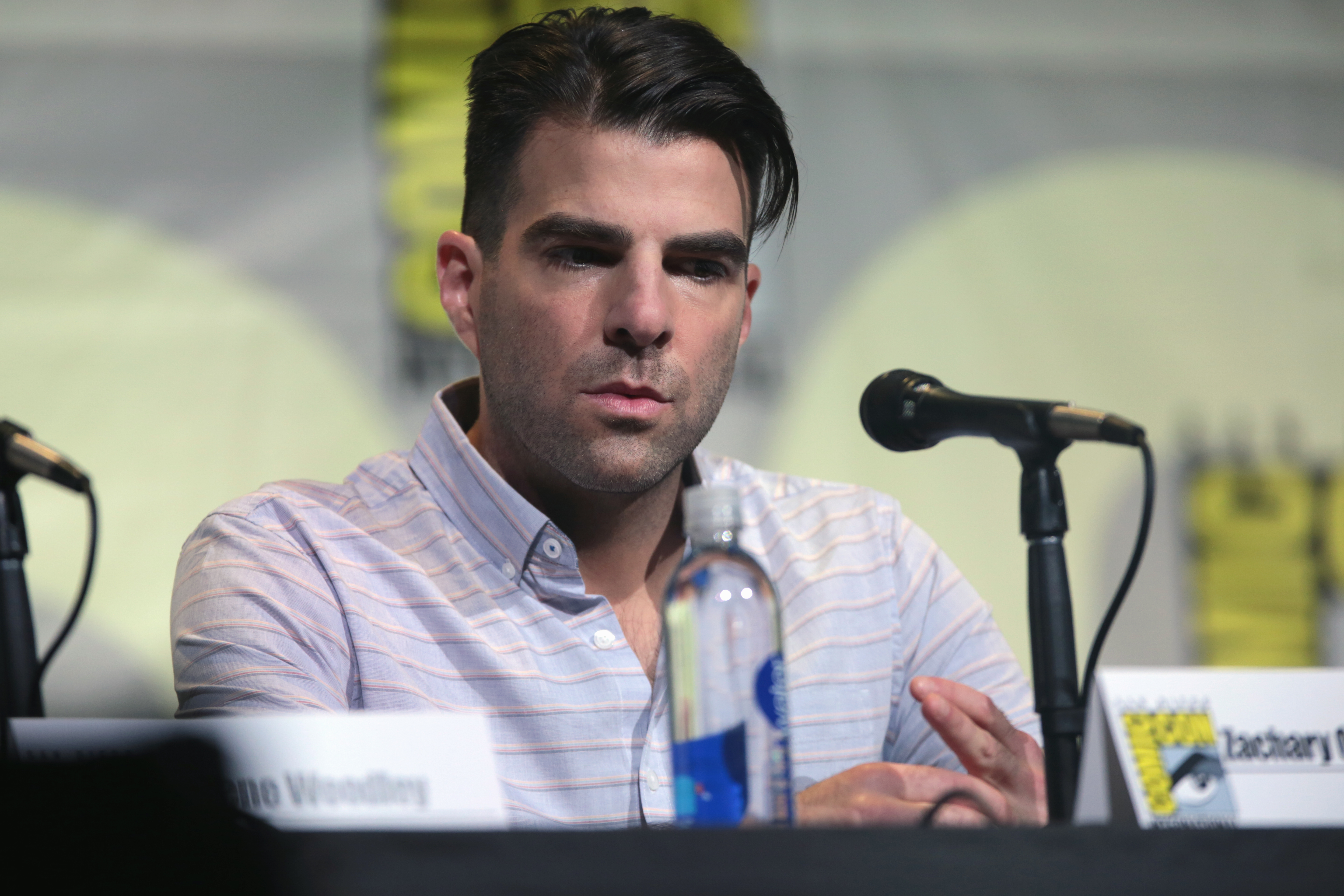 Zachary Quinto speaking at the 2016 San Diego Comic Con International, for "Snowden", at the San Diego Convention Center in San Diego, California.